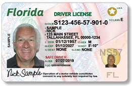 Front of an example Florida driver license issued in May 2019